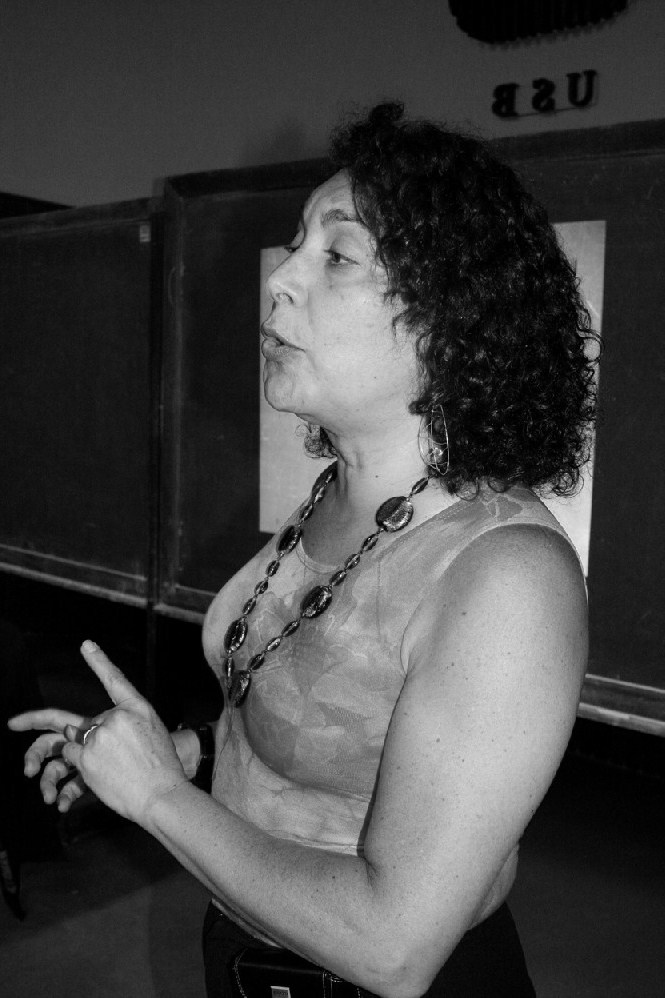 Tamara Adrian, Venezuela Activist and Social Worker